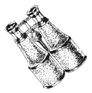 Emblem of the 16th Reconnaissance Squadron